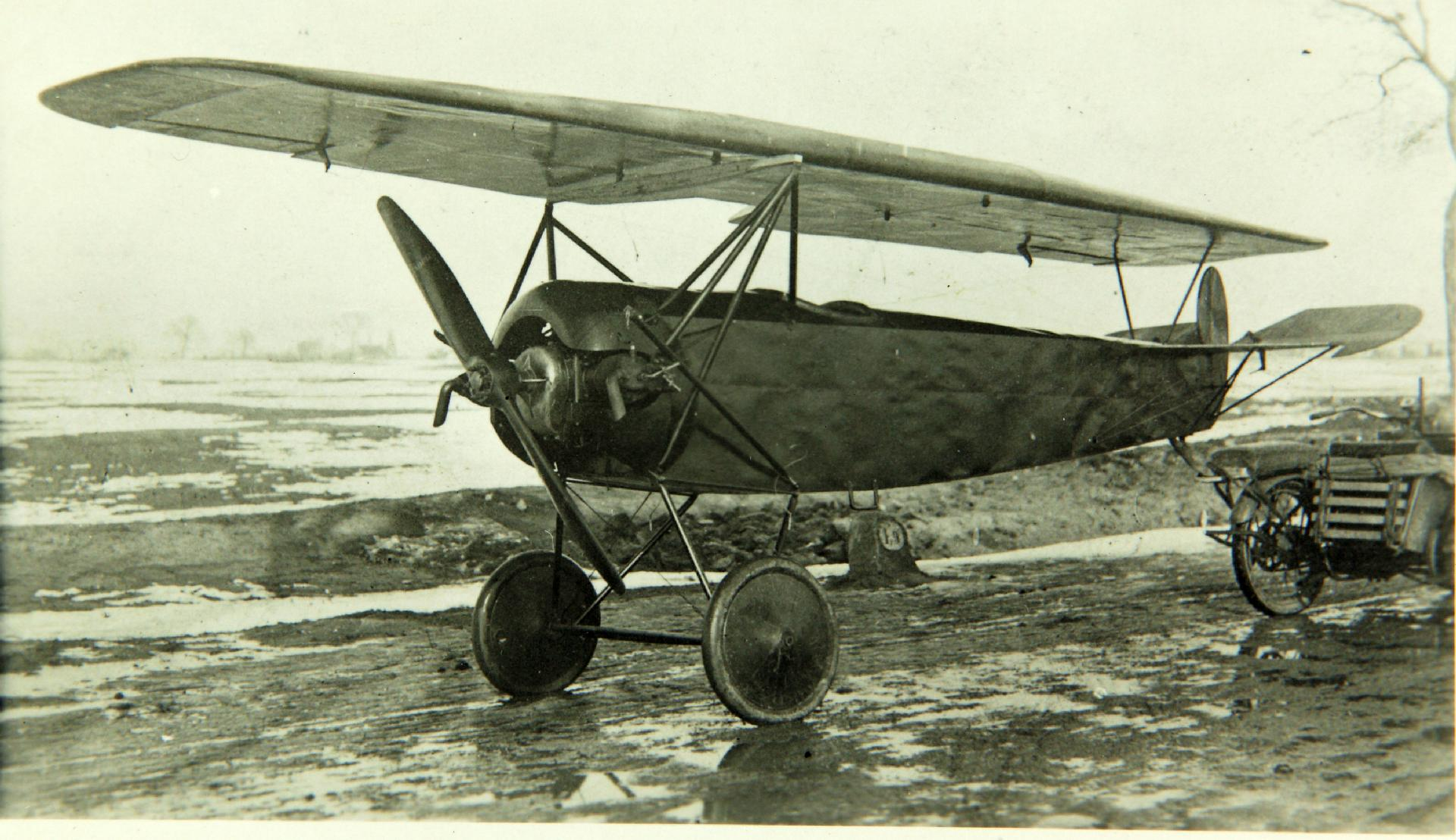 Catalog #: 01_00080635 Title: Gabriel, P-5 Corporation Name: Gabriel Additional Information: Poland Designation: P-5 Tags: Gabriel, P-5 Repository: San Diego Air and Space Museum Archive